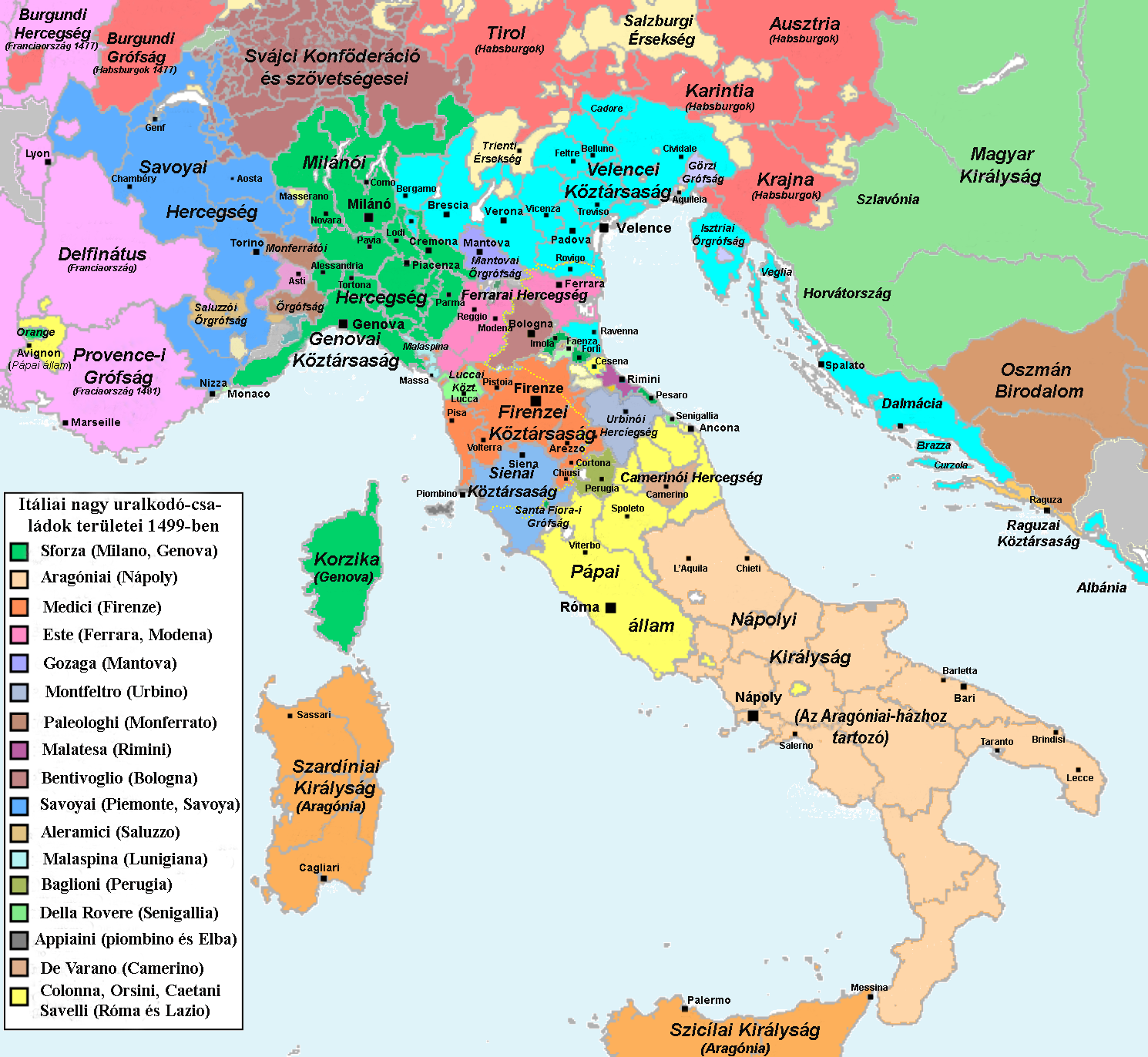 Italy in 1499